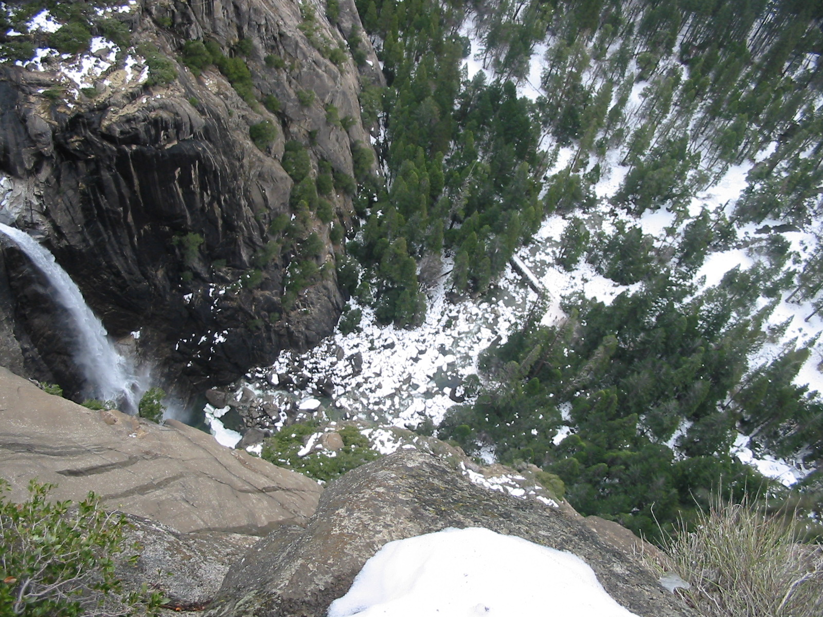 Picture of Yosemite Falls